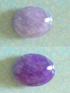 hackmanite